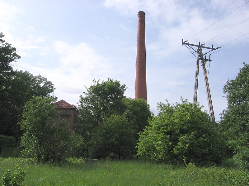 sewage pump house in Lesica, Wrocław, Poland